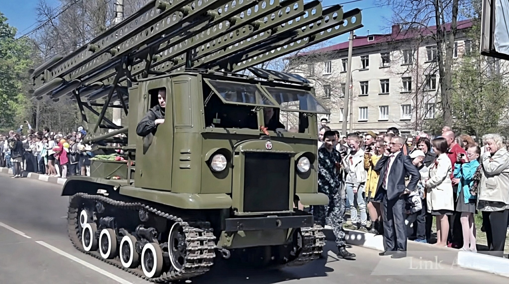 BM-13 "Katusha" on STZ-5-NATI (Novomoskovsk, Tula Oblast, Russia).